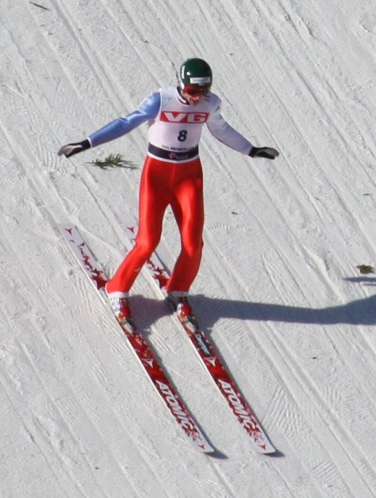 Denis Kornilov in WC Oslo, Holmenkollen 14 march 2010